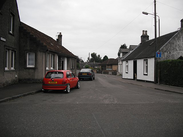 Cambus A village centred around one particular industry - distilling.